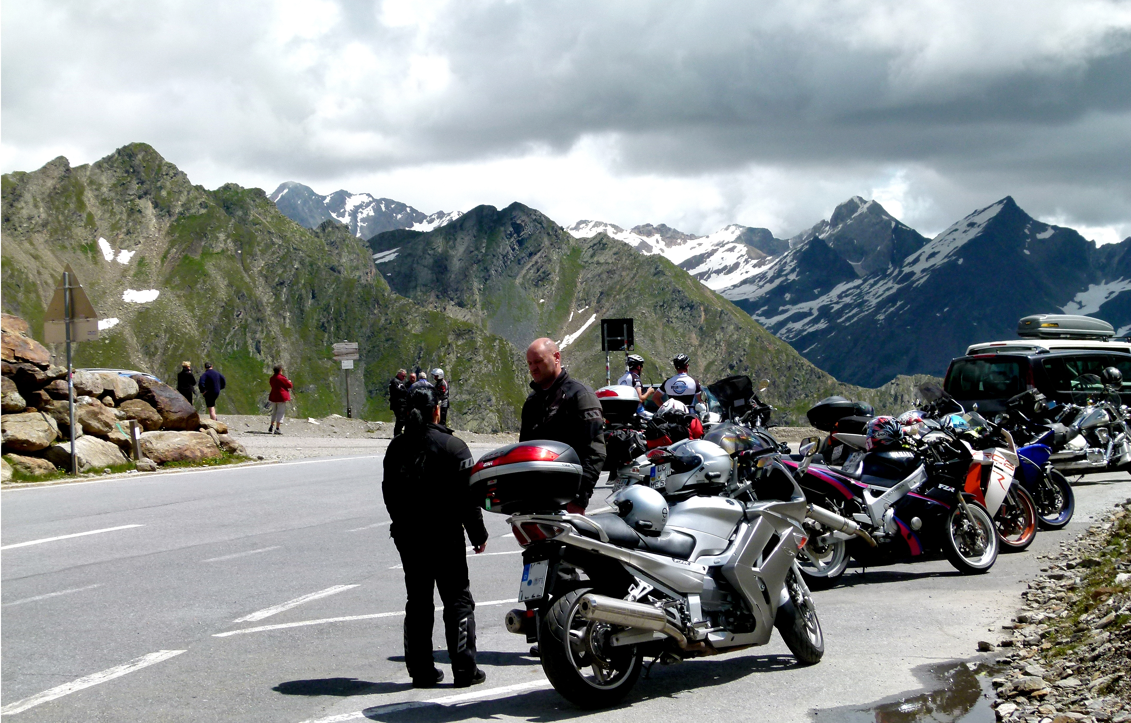 Timmelsjoch, Italy